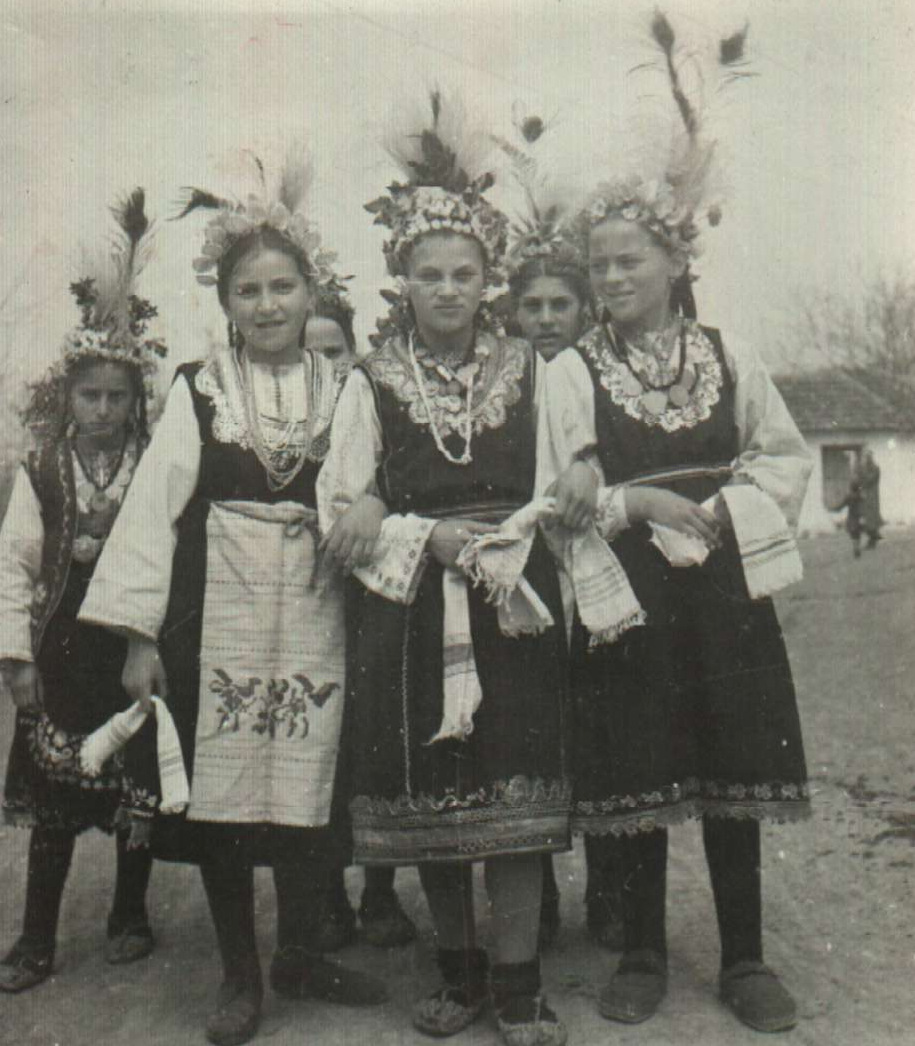 Lazarki from Bulgaria